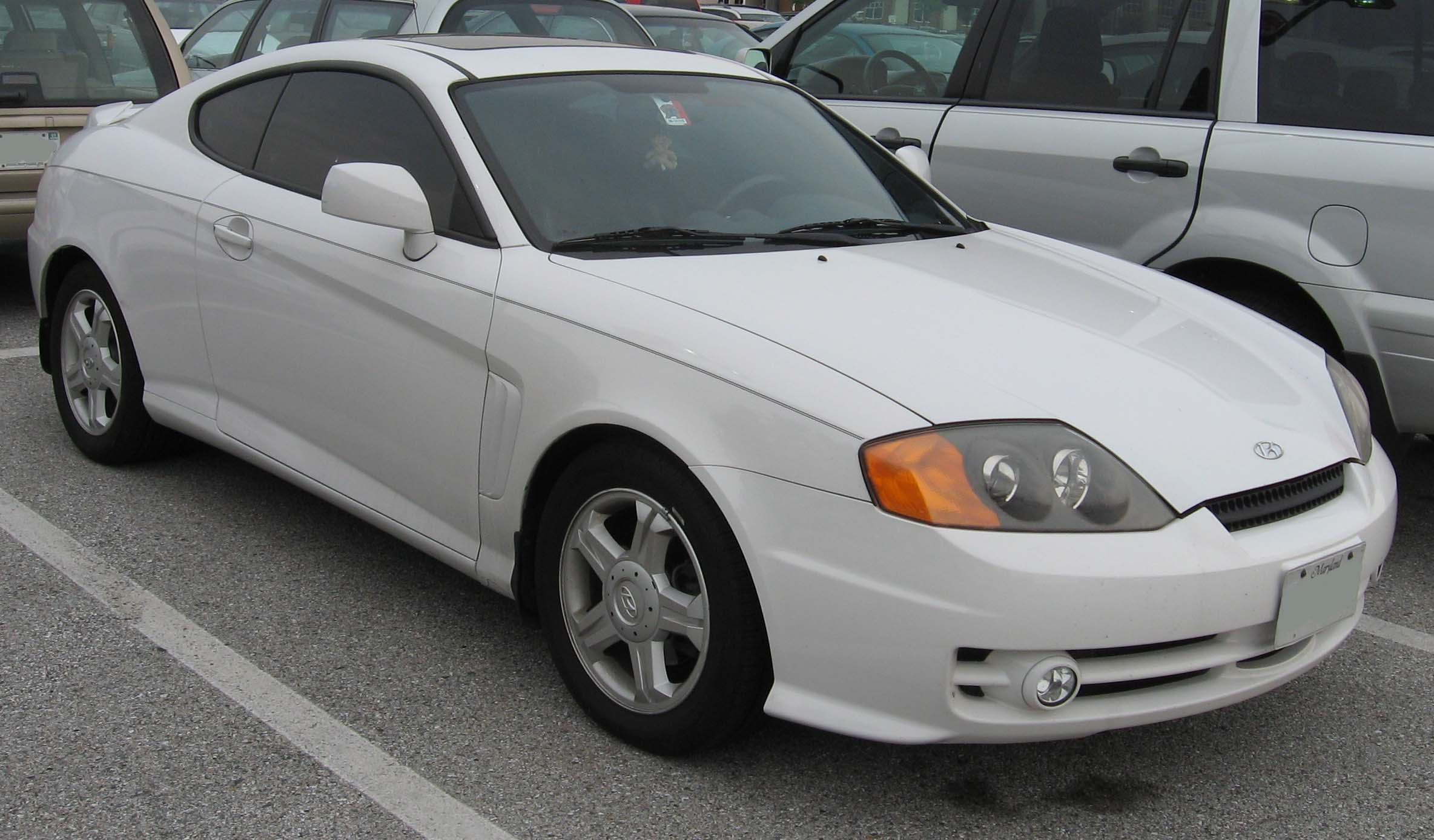 2003-2005 Hyundai Tiburon photographed in USA.